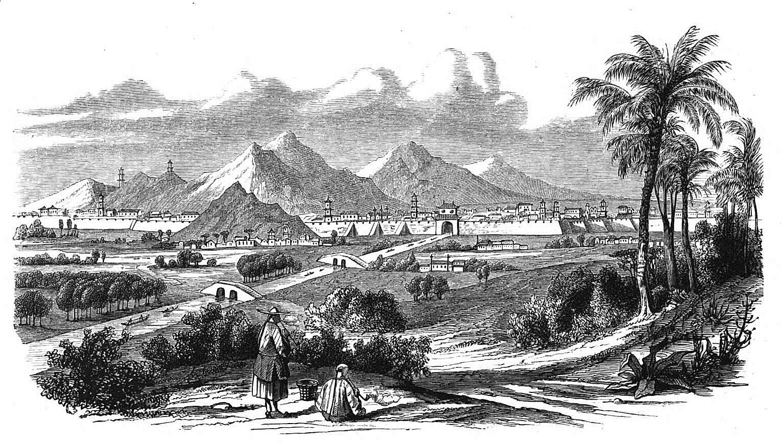 caption: "Nanking."